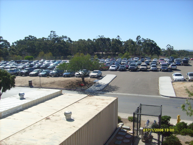 fawd